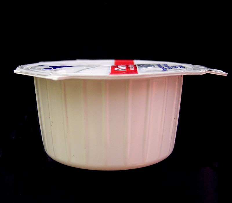 Kaffeesahne / Cream for coffee